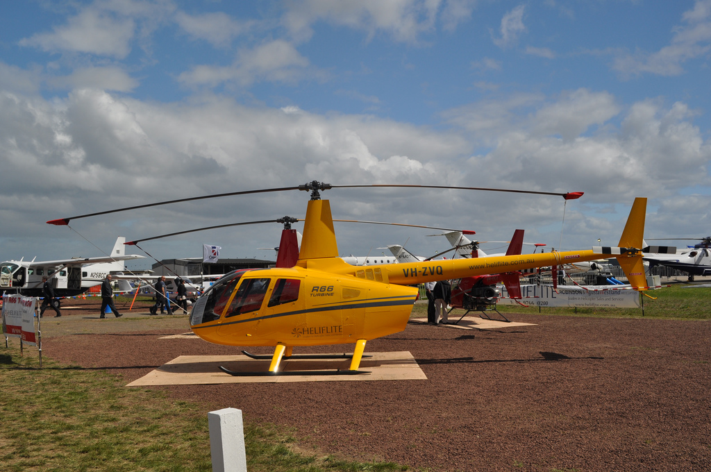 Robertson R66 Turbine production version on sale at Avalon Air Show 28 February 2011, Australian aircraft registration VH-ZVQ